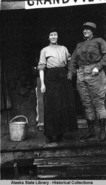 Nellie Lawing (left) with a friend circa 1915